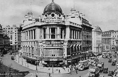 The Gaiety Theatre, c. 1910